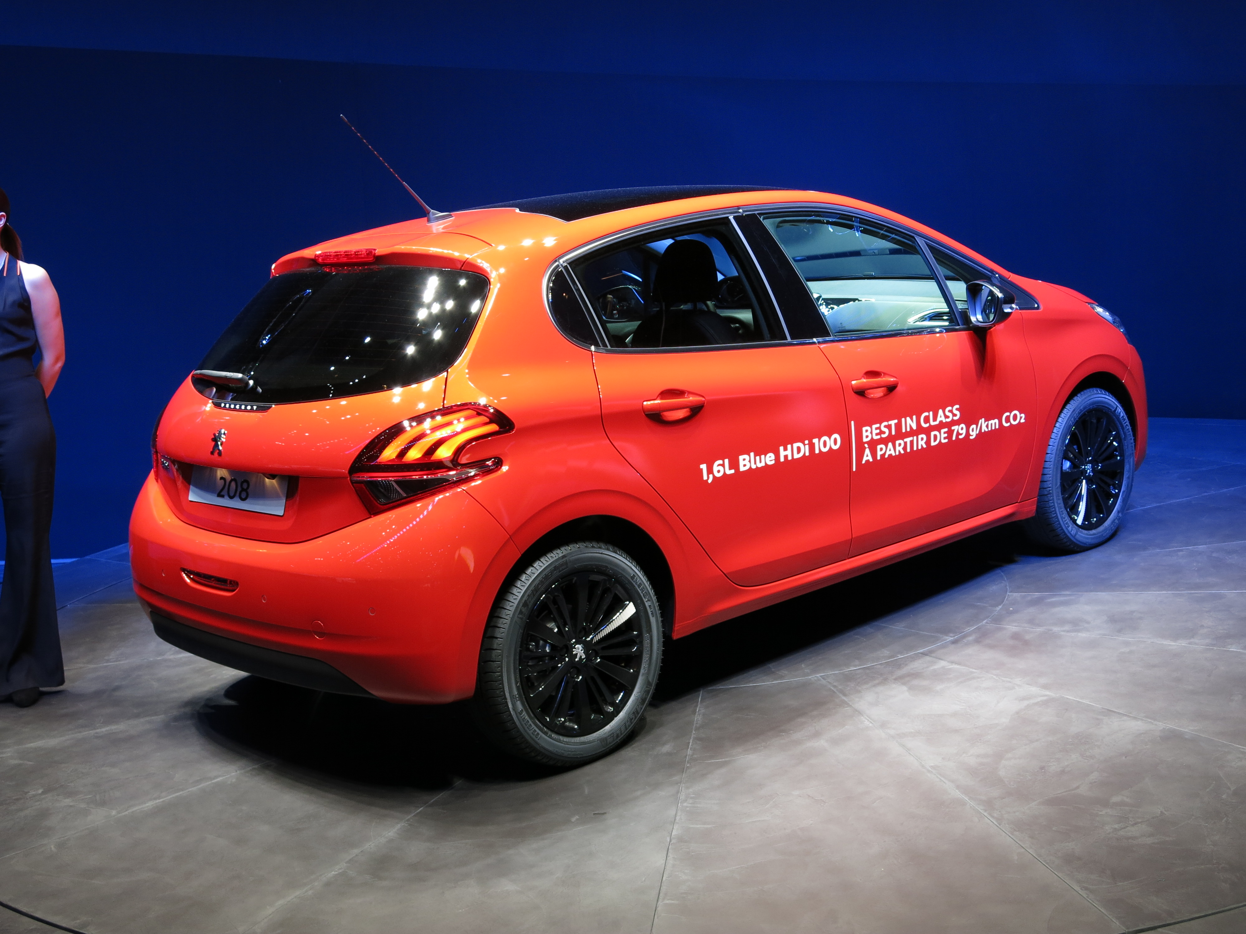 Geneva Motor Show 2015 (photo taken on the first press day)